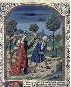 Illustration from De Casibus by Boccaccio translated by Laurent de Premierfait, first quarter of the 16th century.